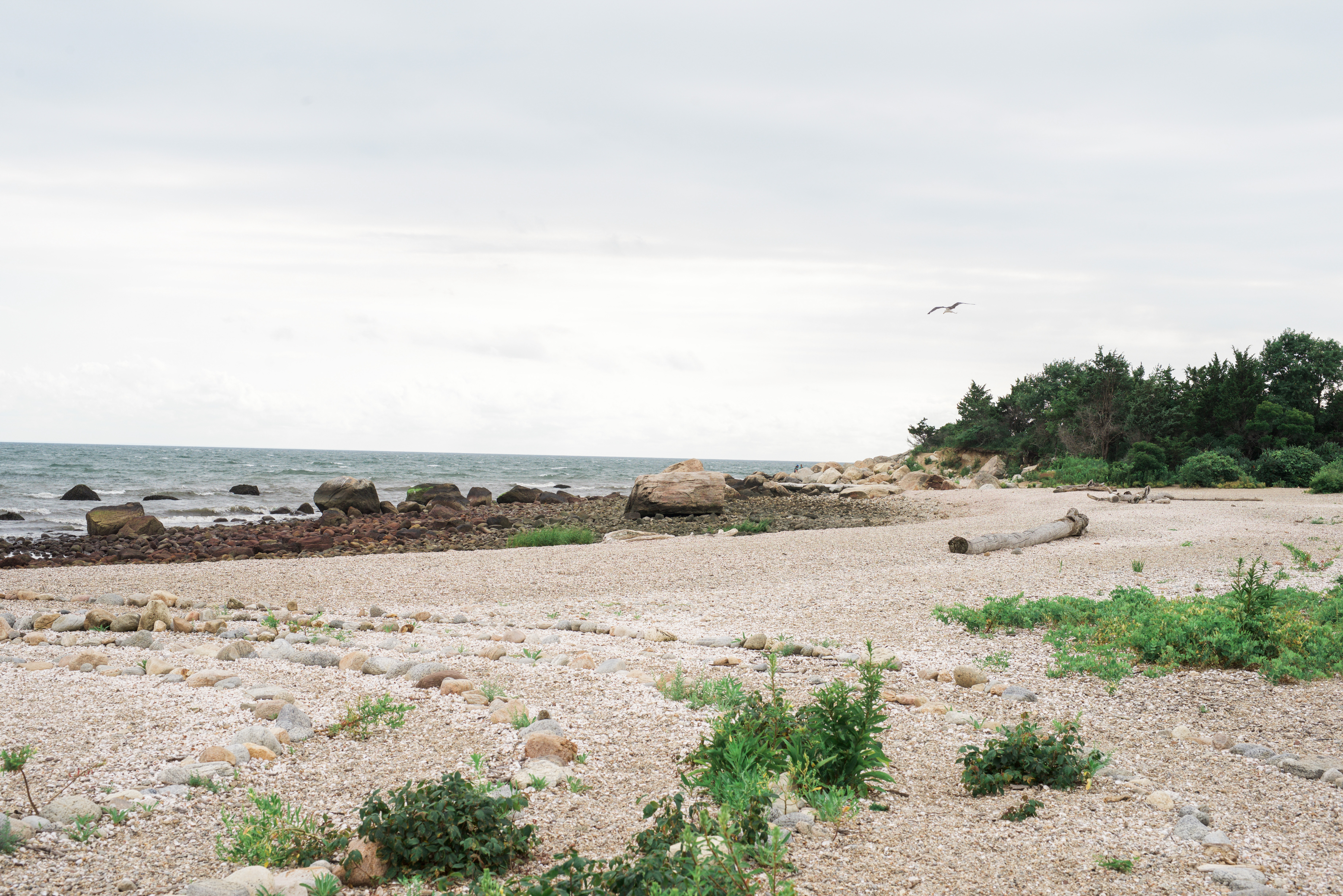 Hammonasset Beach State Park in Madison, Connecticut.